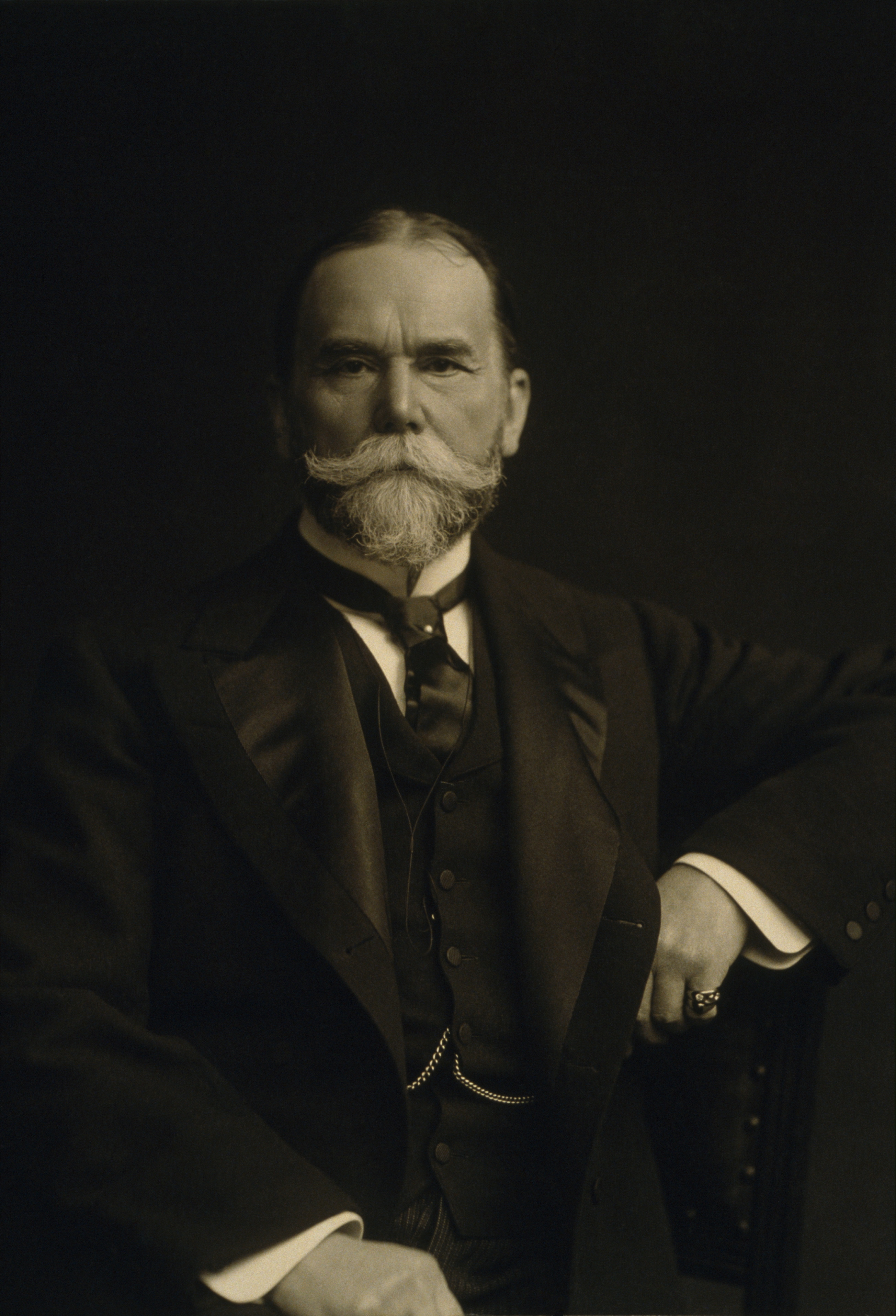 John Hay, private secretary to President Abraham Lincoln, and Secretary of State under William McKinley and Theodore Roosevelt